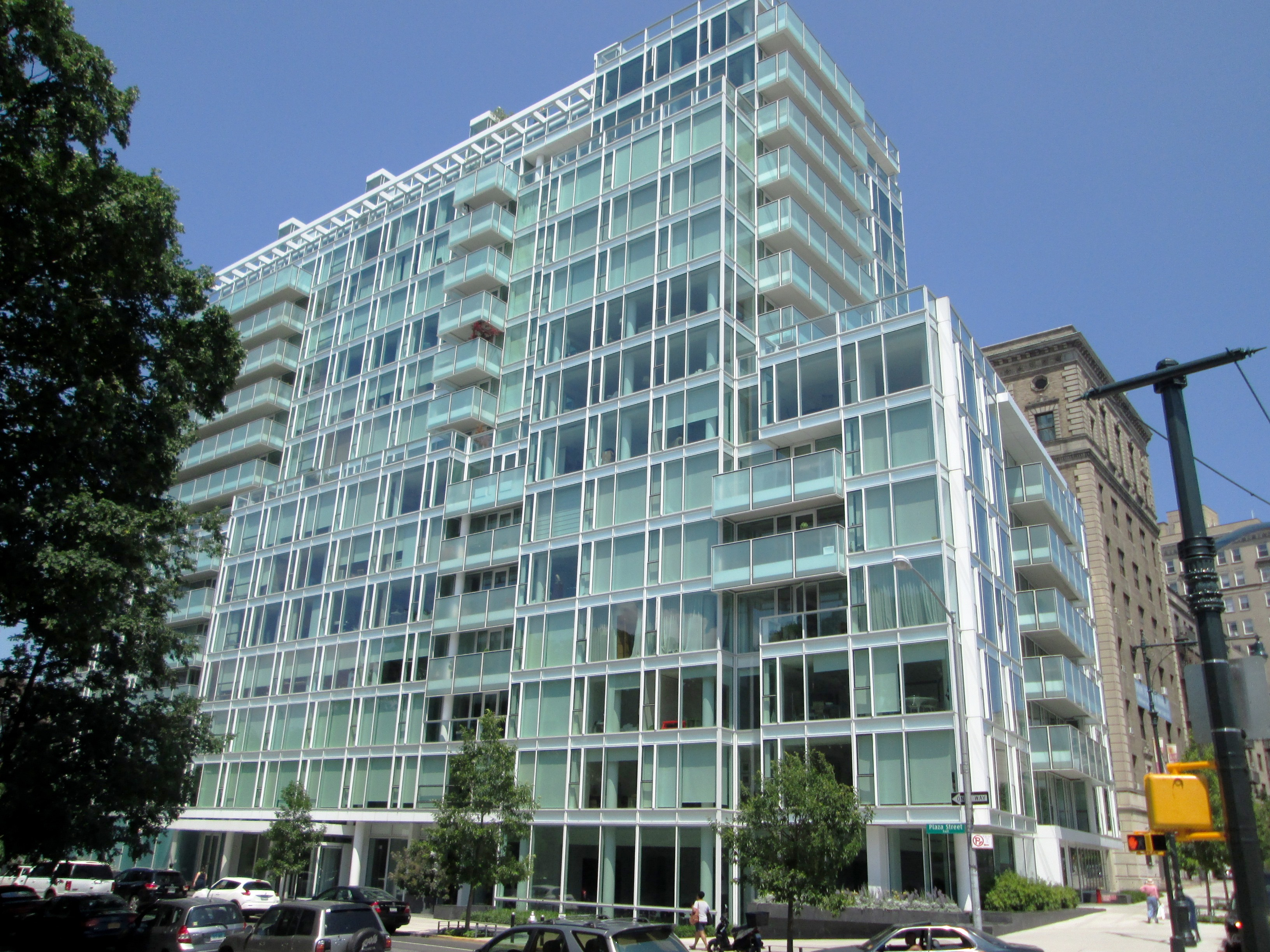 1 Grand Army Plaza, also known as "Richard Meier On Prospect Park", is located at the intersection of Eastern Parkway and Plaza Street East in the Prospect Heights neighborhood of Brooklyn, New York City. It was built in 2009 and was designed by Richard Meier. (Sources: AIA Guide to NYC' (5th ed.) and Street Easy)